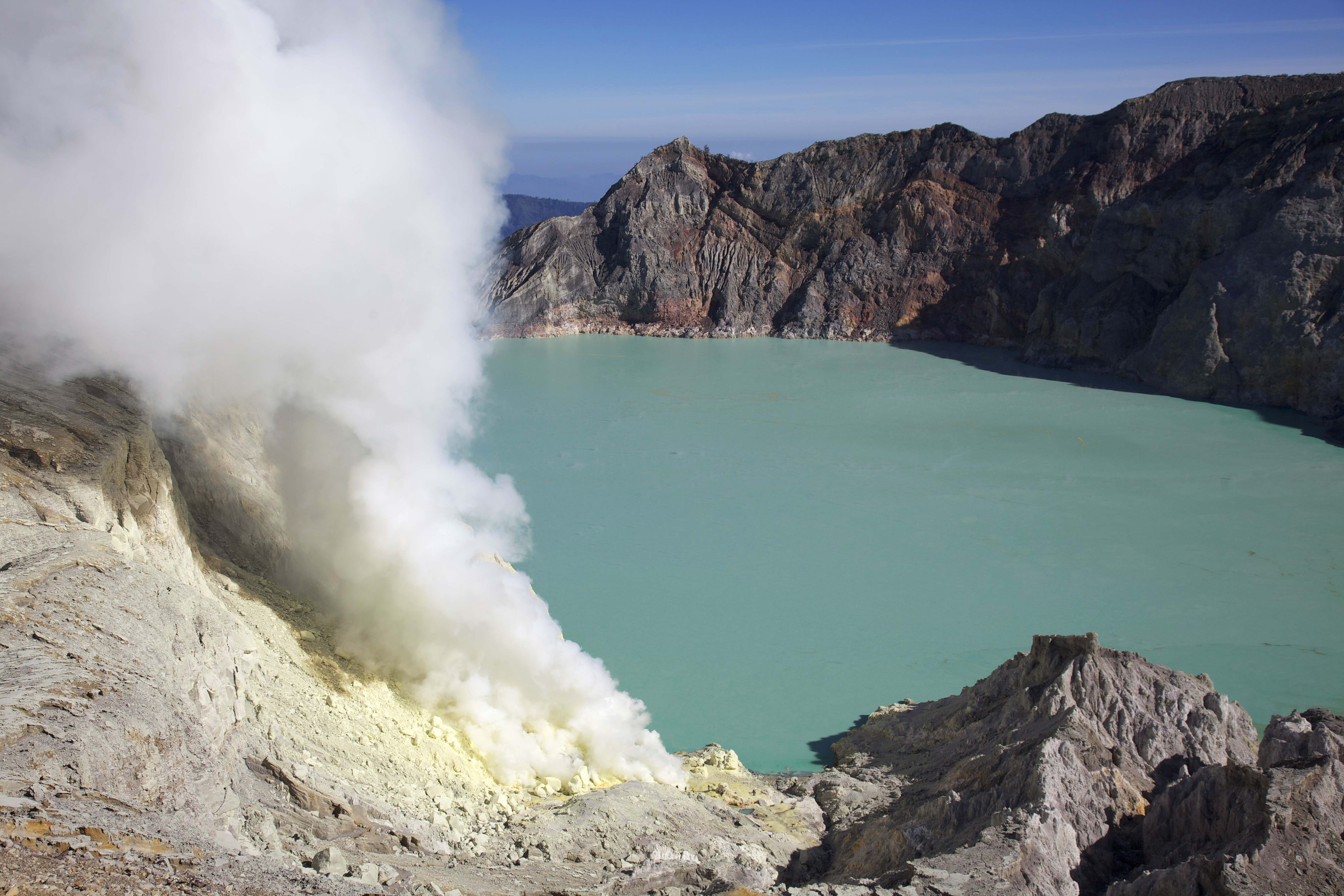 Kawah Ijen a volcano in East Java, Indonesia.